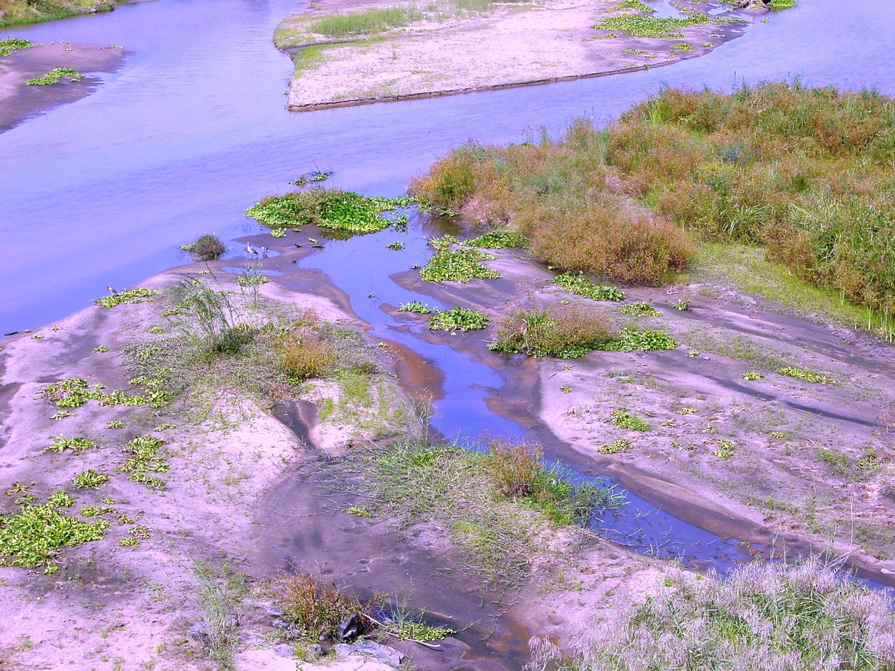 Crocodile river, Kruger National Park